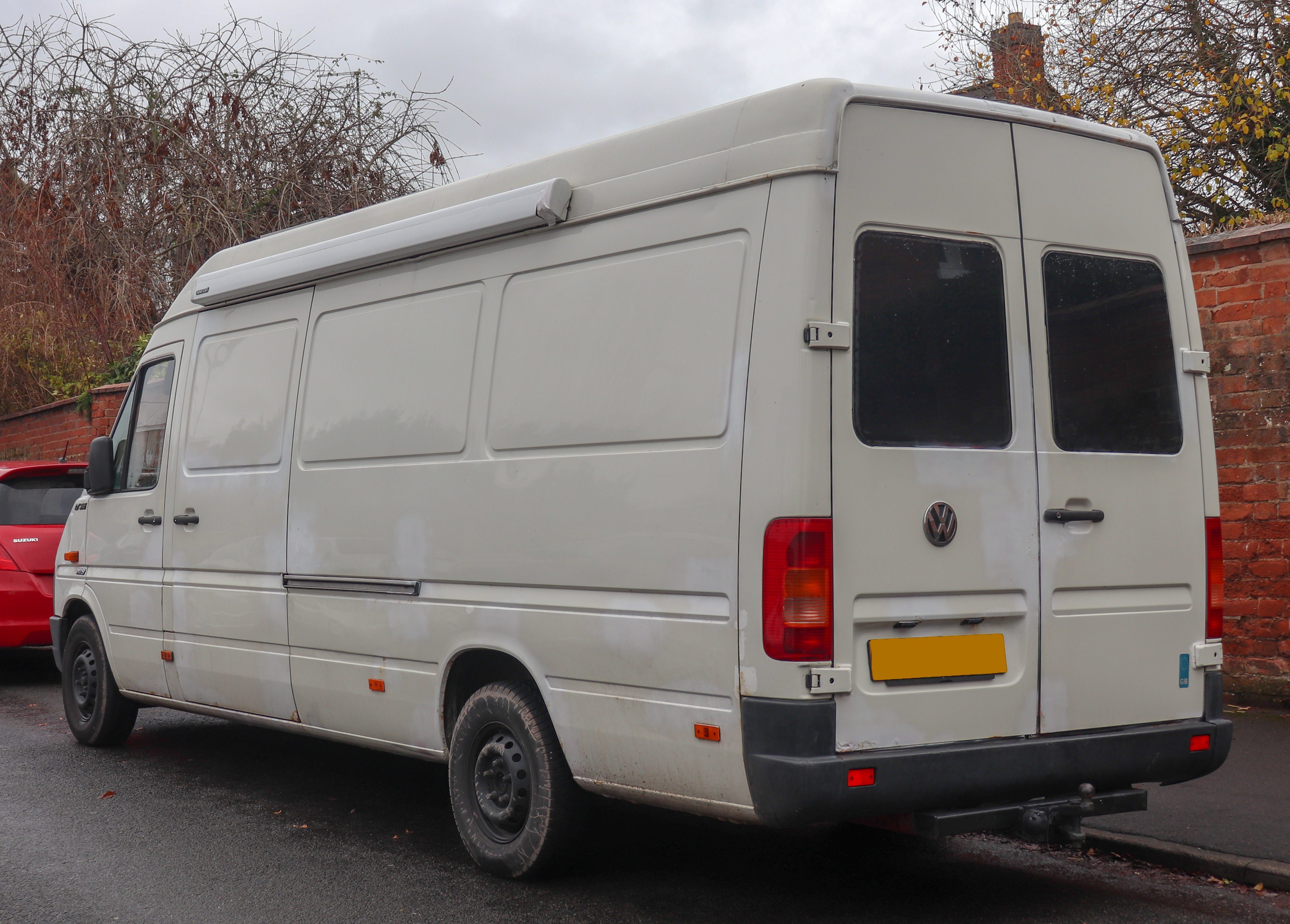 2004 Volkswagen LT35 TDi LWB 2.5 Rear Taken in Leamington Spa